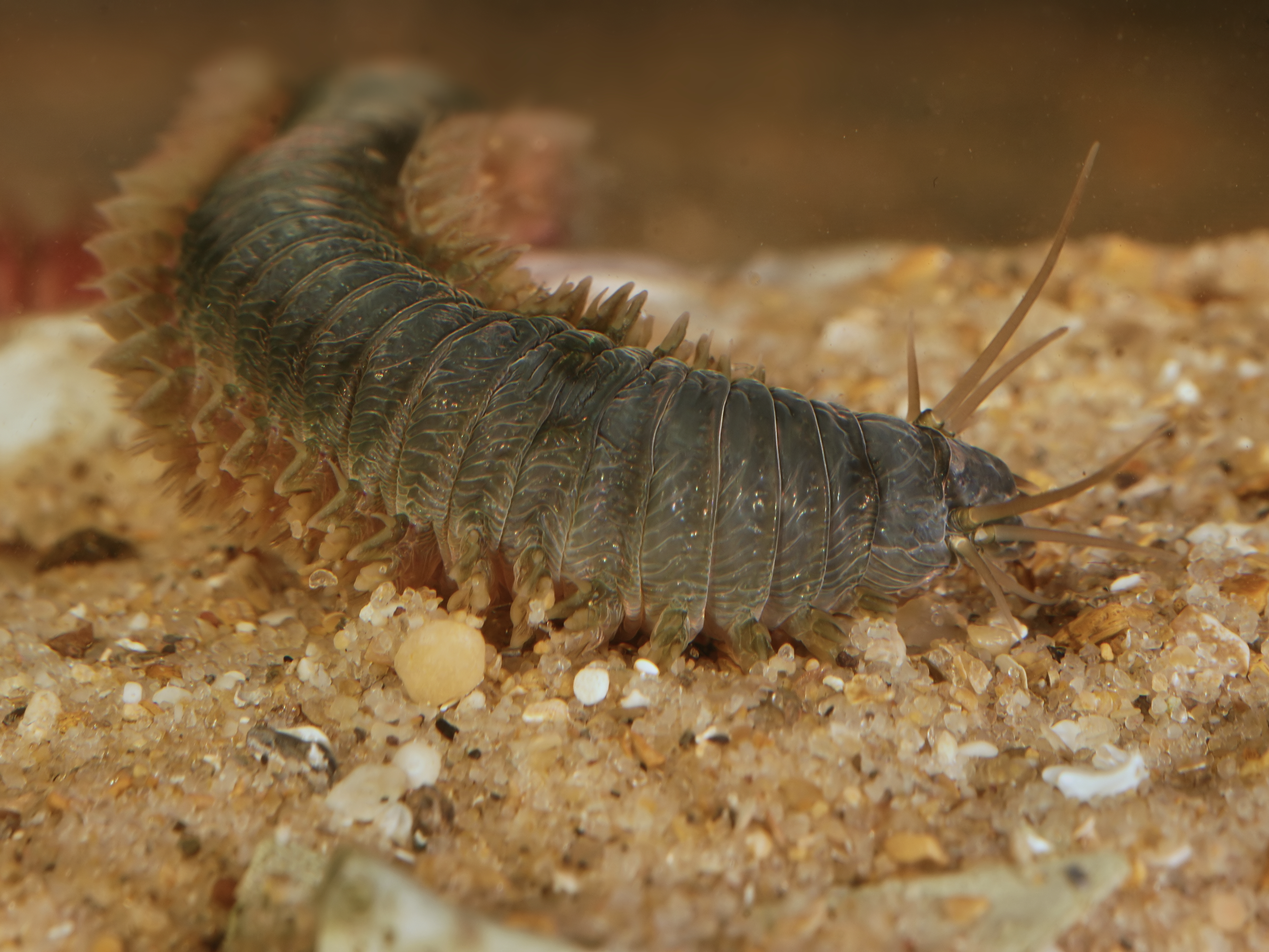 King ragworm. Geo-location not applicable as the picture was taken in the lab.